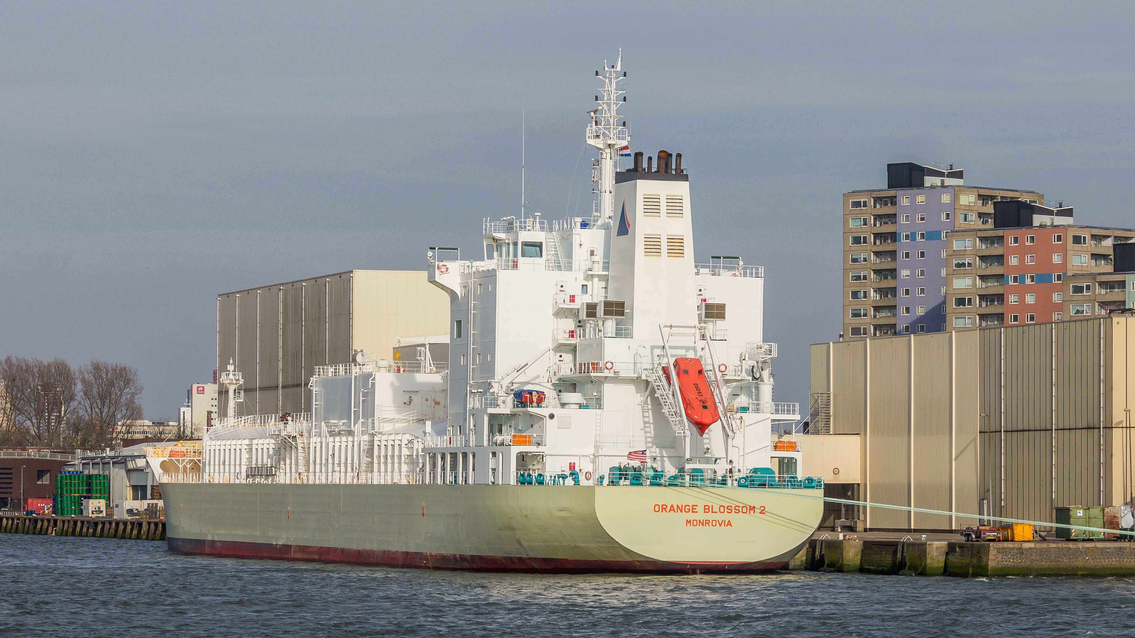 The fruit juice tanker Orange Blossom 2 (IMO 9675406) moored in IJselhaven, Rotterdam